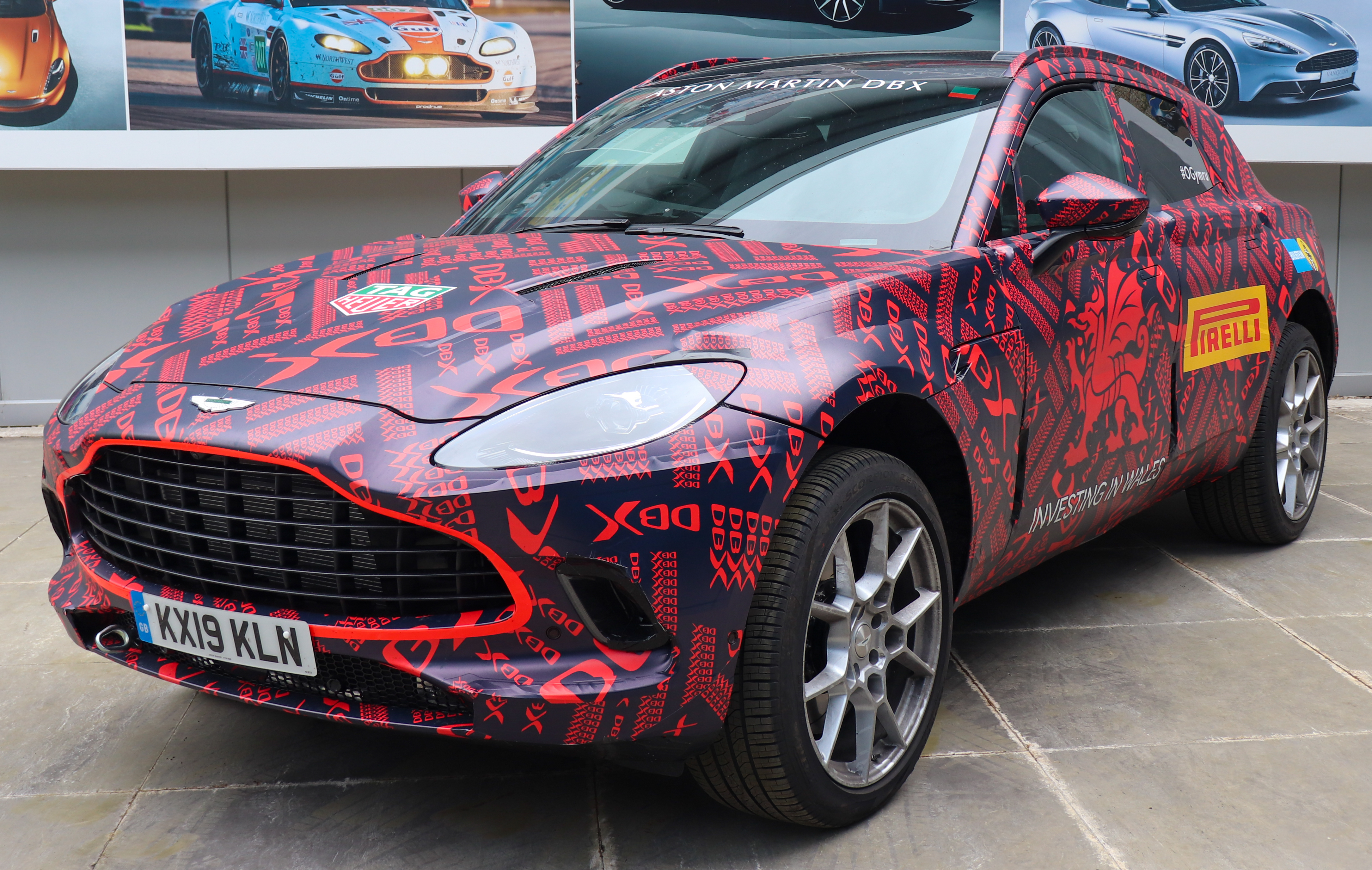 2019 Aston Martin DBX Test Mule 4.0 Front Taken at the Aston Martin Lagonda factory, Gaydon